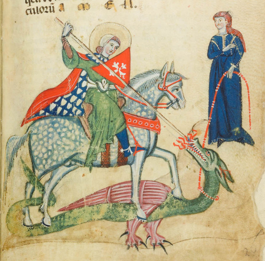 miniature of St George and the Dragon, Verona second half of 13th century. (Manoscritto membranaceo; mm 240 x 170; ff. 41, una carta perduta fra le attuali 35-36; scrittura gotica libraria; 78 vignette istoriate diffuse nel testo), Seconda metà del secolo XIII, Nota di possesso a c. 3 "Est sancte Magdalene de Campo Martio de Verona". Acquistato dalla Biblioteca Civica nel 1881.[1]) [2]